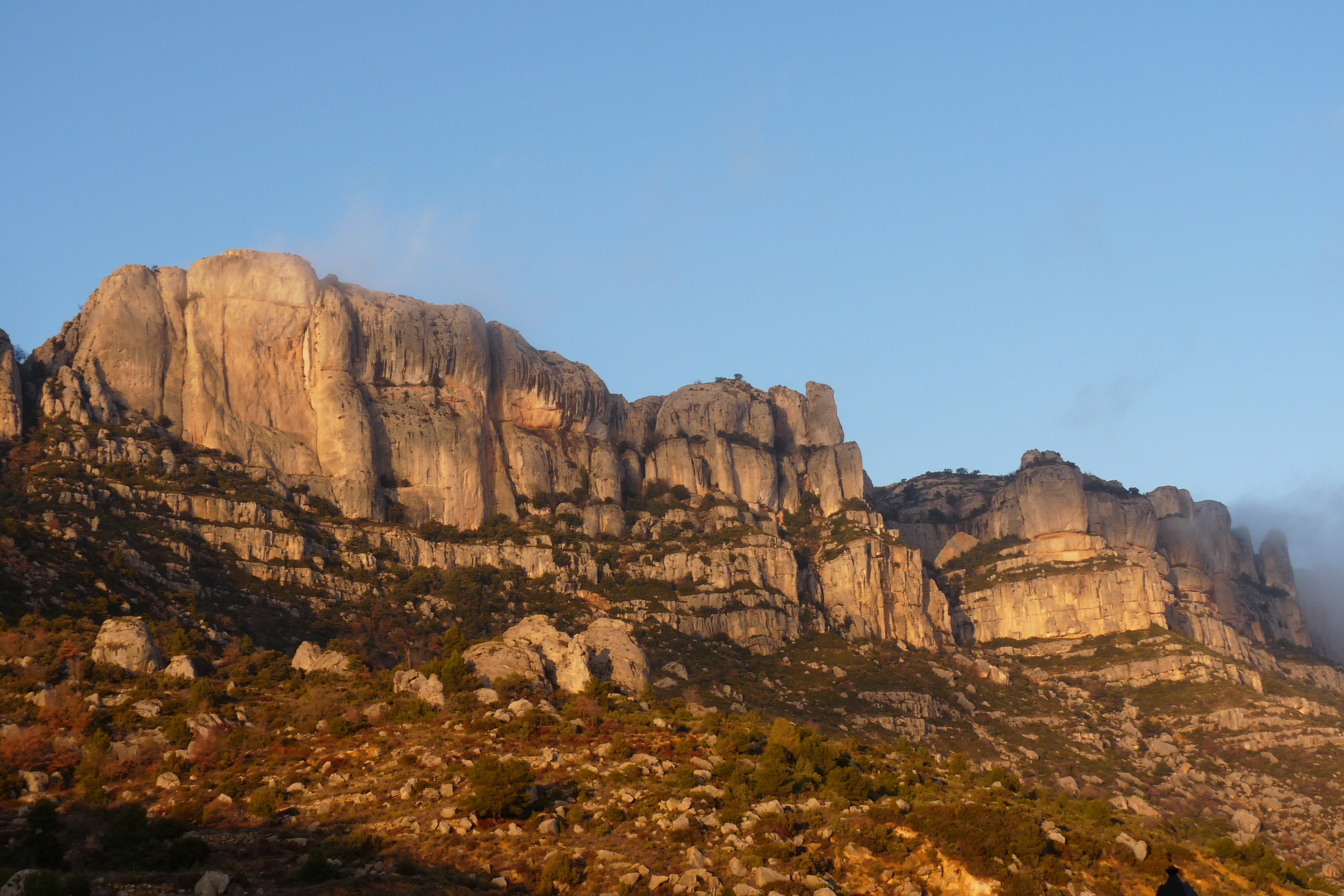 Fragment of the south side of the Montsant (near la Morera) with light of afternoon